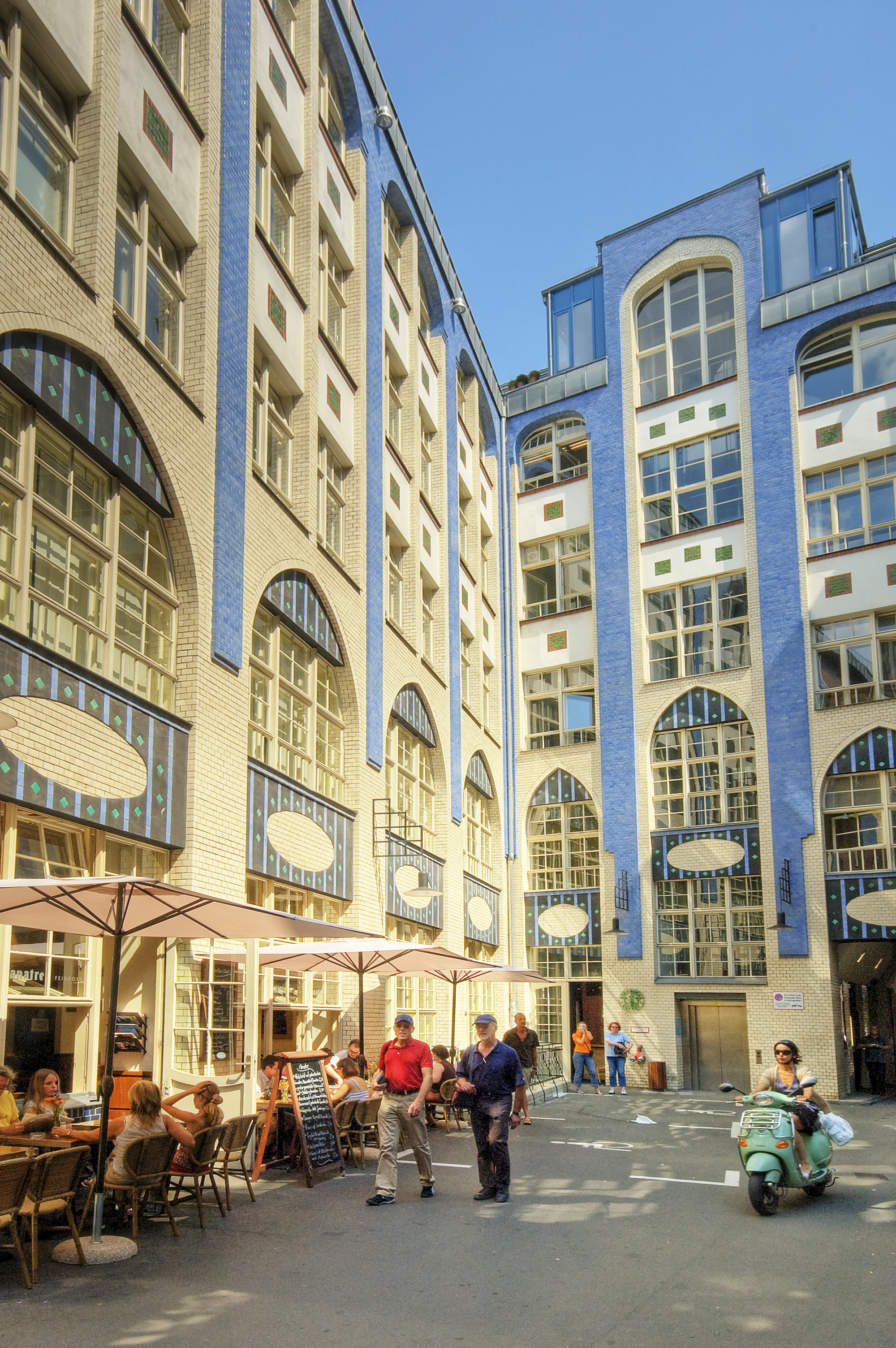 Get thelarge view!